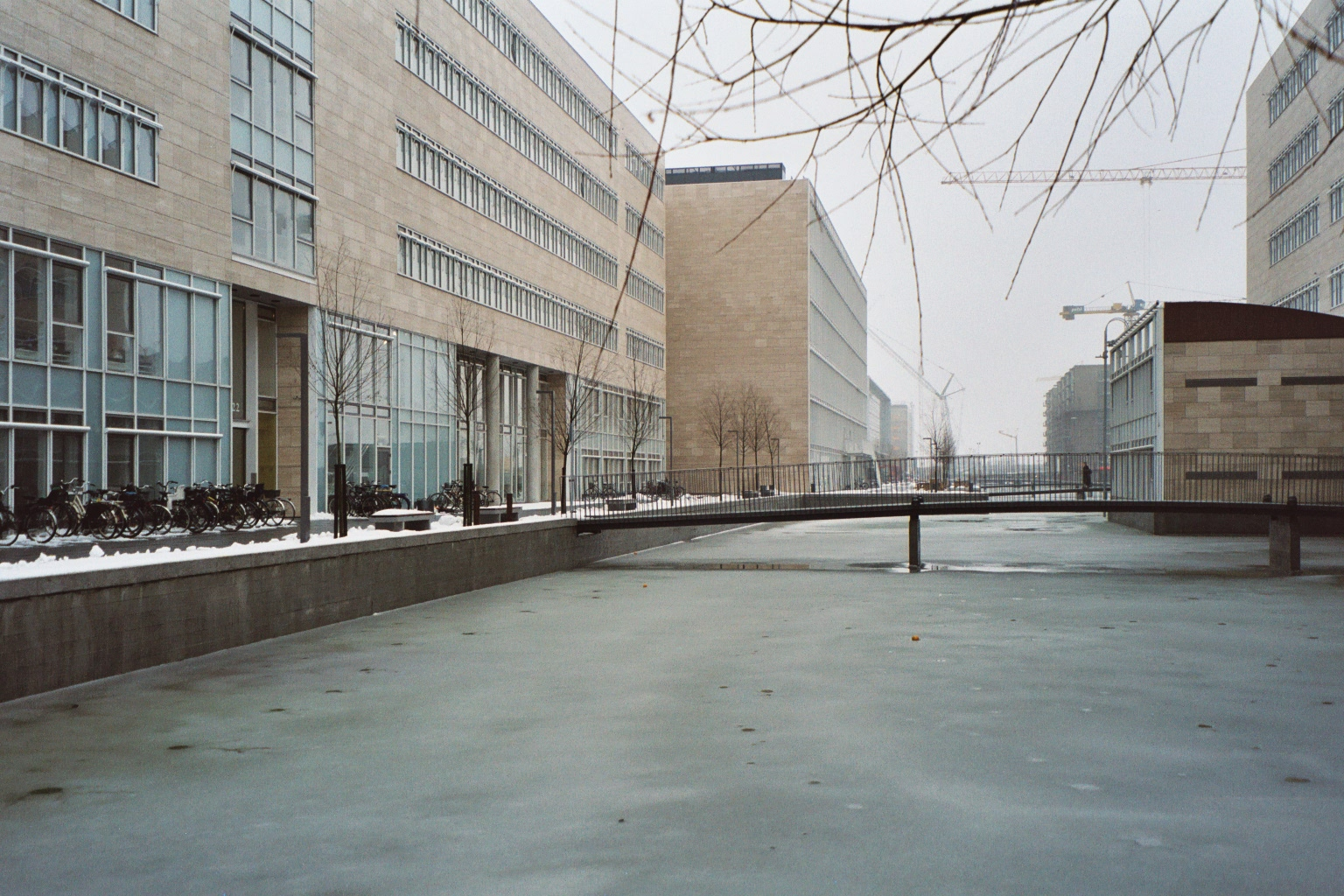 Copenhagen, University on Amager